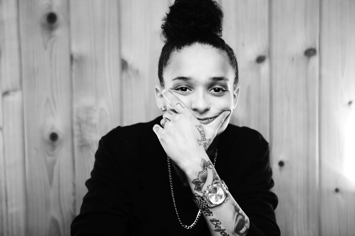 Rene Brown rapper